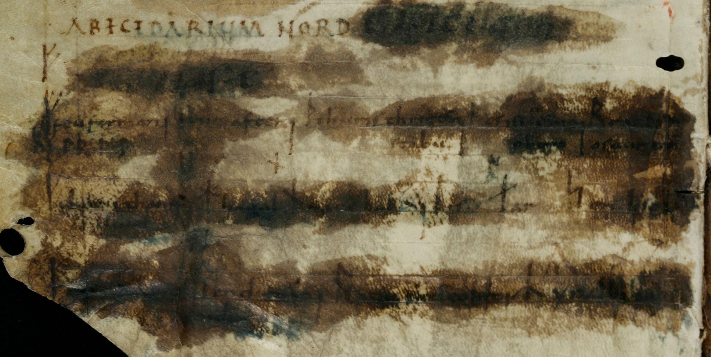 Scan of the Younger Futhark section (Abecedarium Nordmanicum) in Codex Sangallensis 878. The black smudges are the result of a failed attempt at conservation in the 19th century.